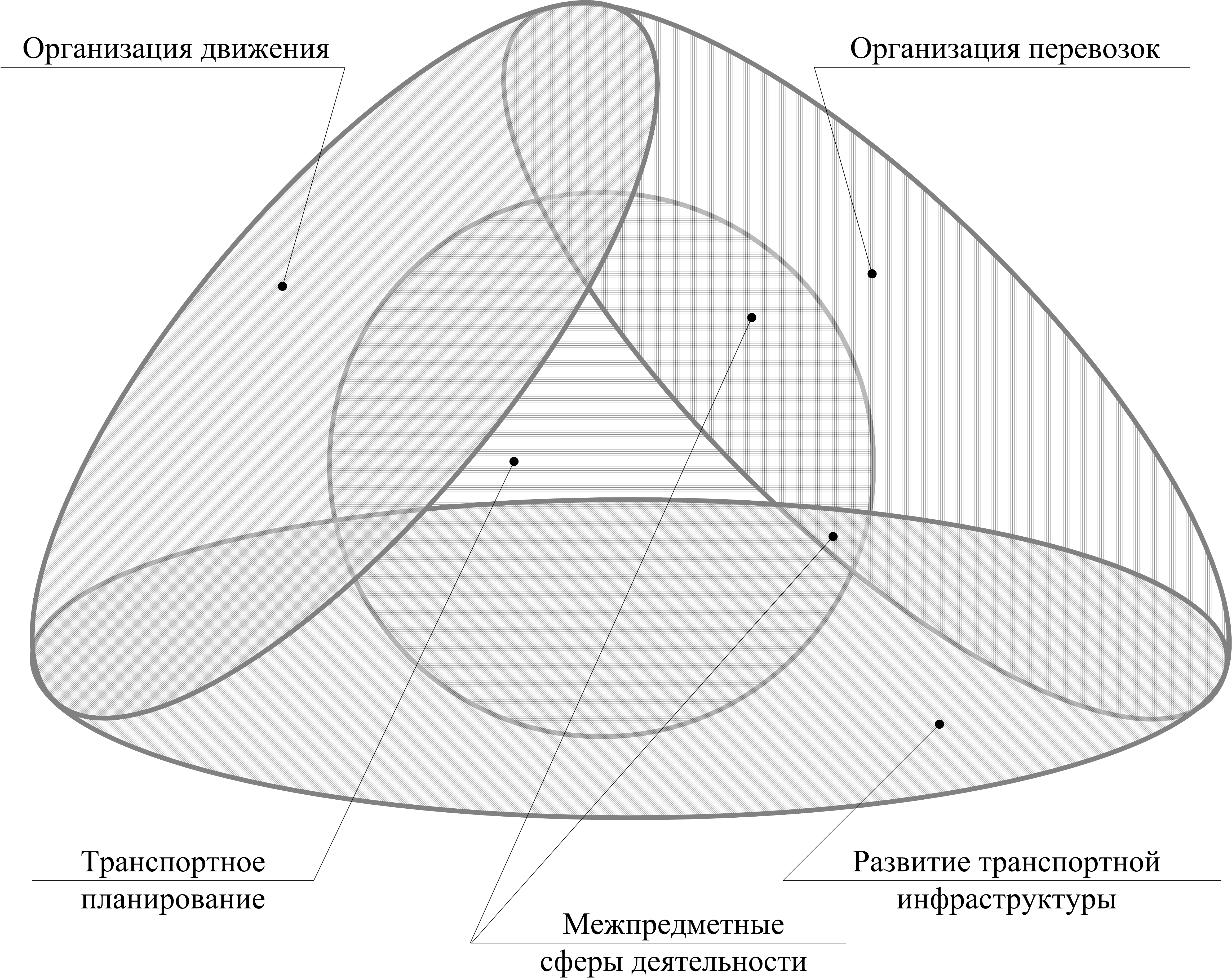 Схема взаимосвязи транспортного планирования с направлениями инженерной деятельности